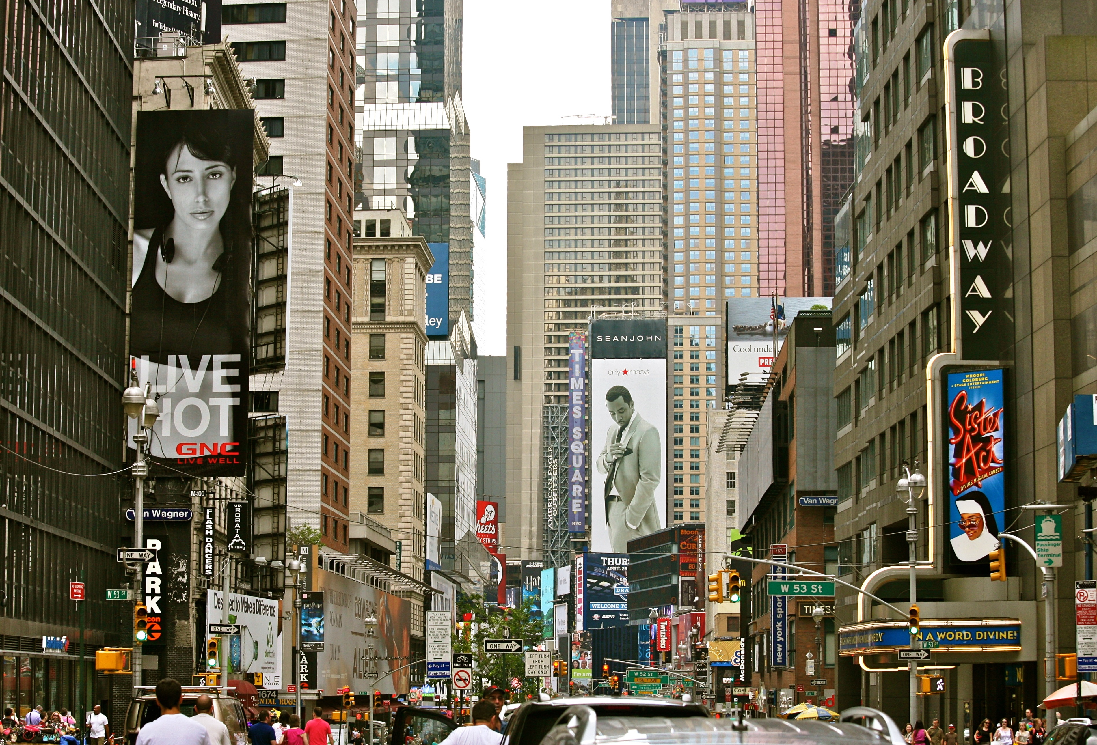 Broadway Crowds